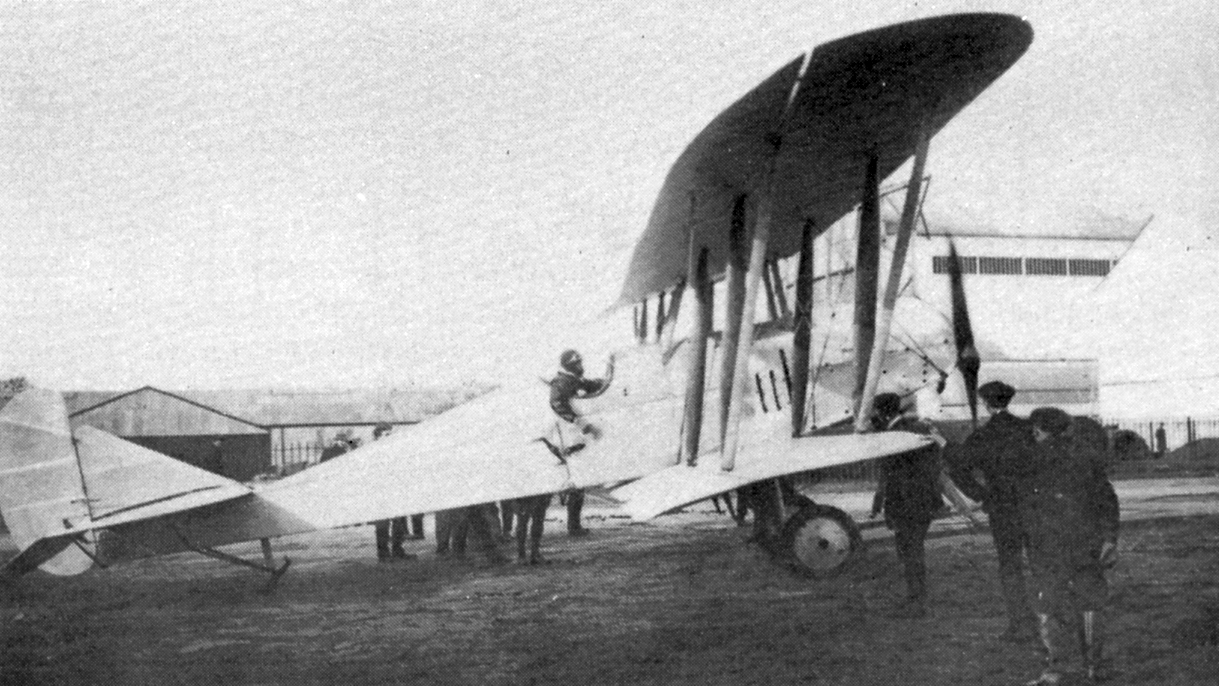 Sixth R.E.5 with long span upper wings being prepared for a successful world altitude flight at 18,900 ft, 1914-5-14. The outward leaning struts outboard of the vertical interplane struts are lighter coloured and thinner, making them clearly visible.